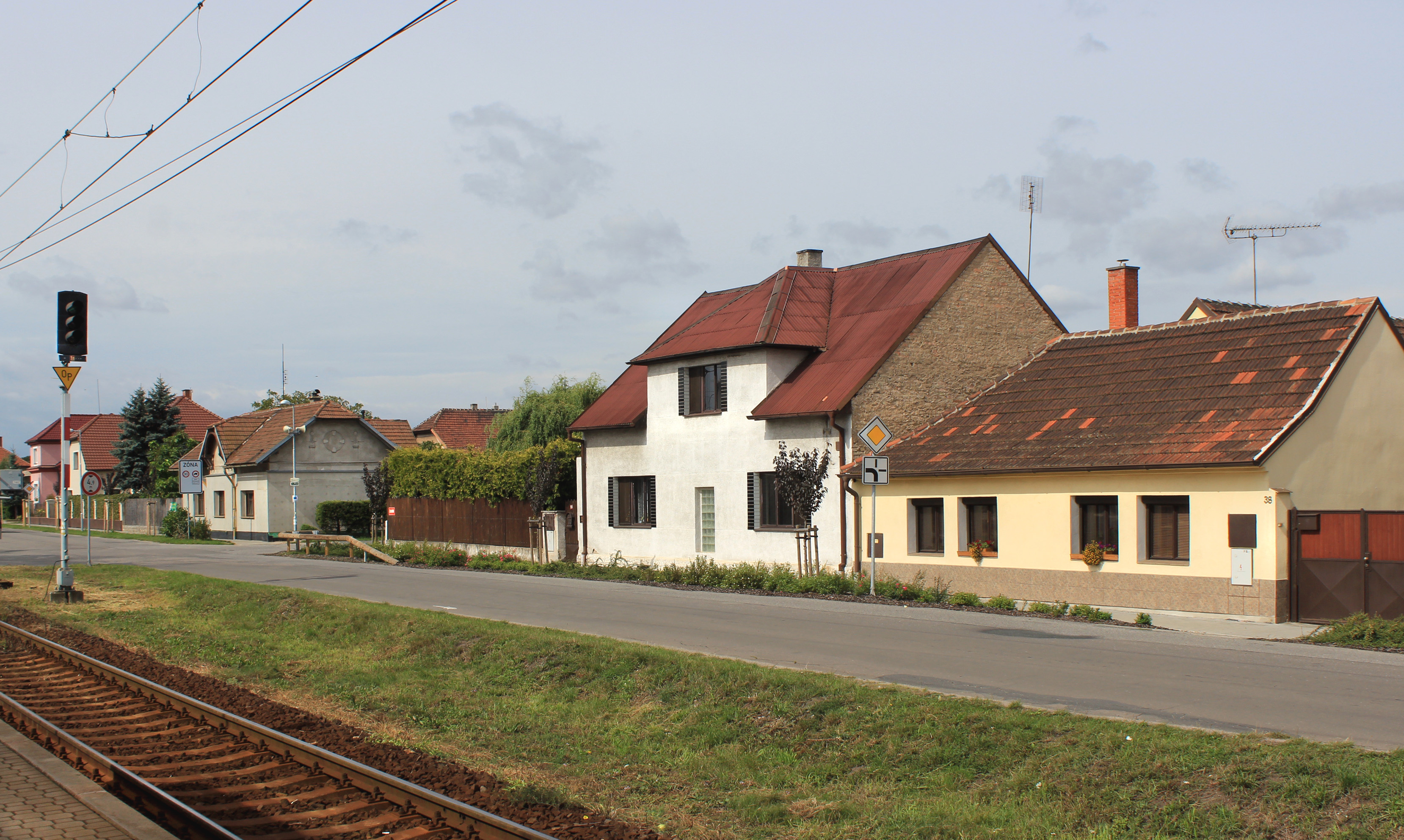 Železniční street - main road in Třebestovice, Czech Republic.